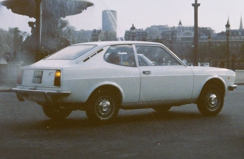 A Fiat 128 Coupe 1977 in the City of Paris